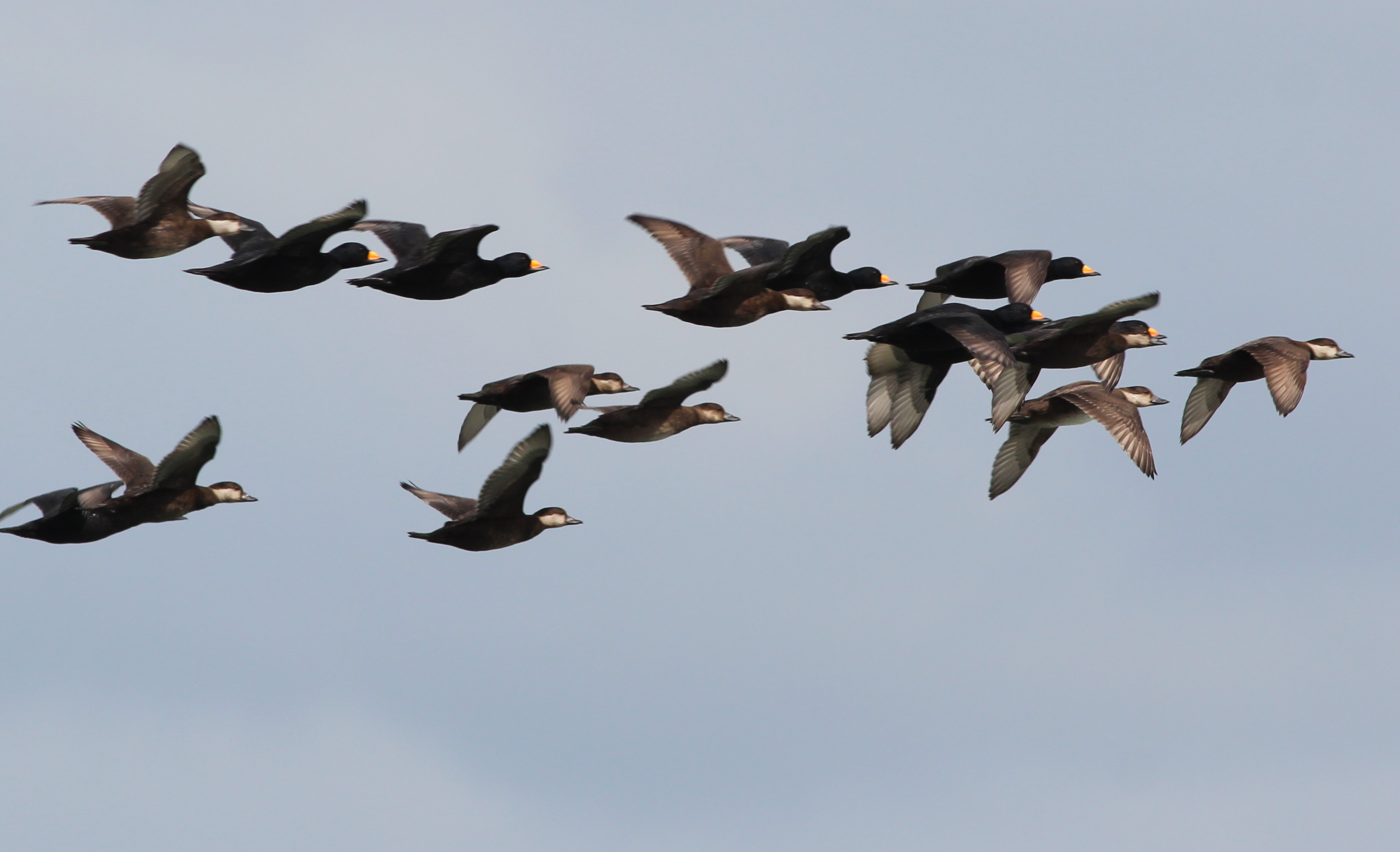 Black Scoters, migrating